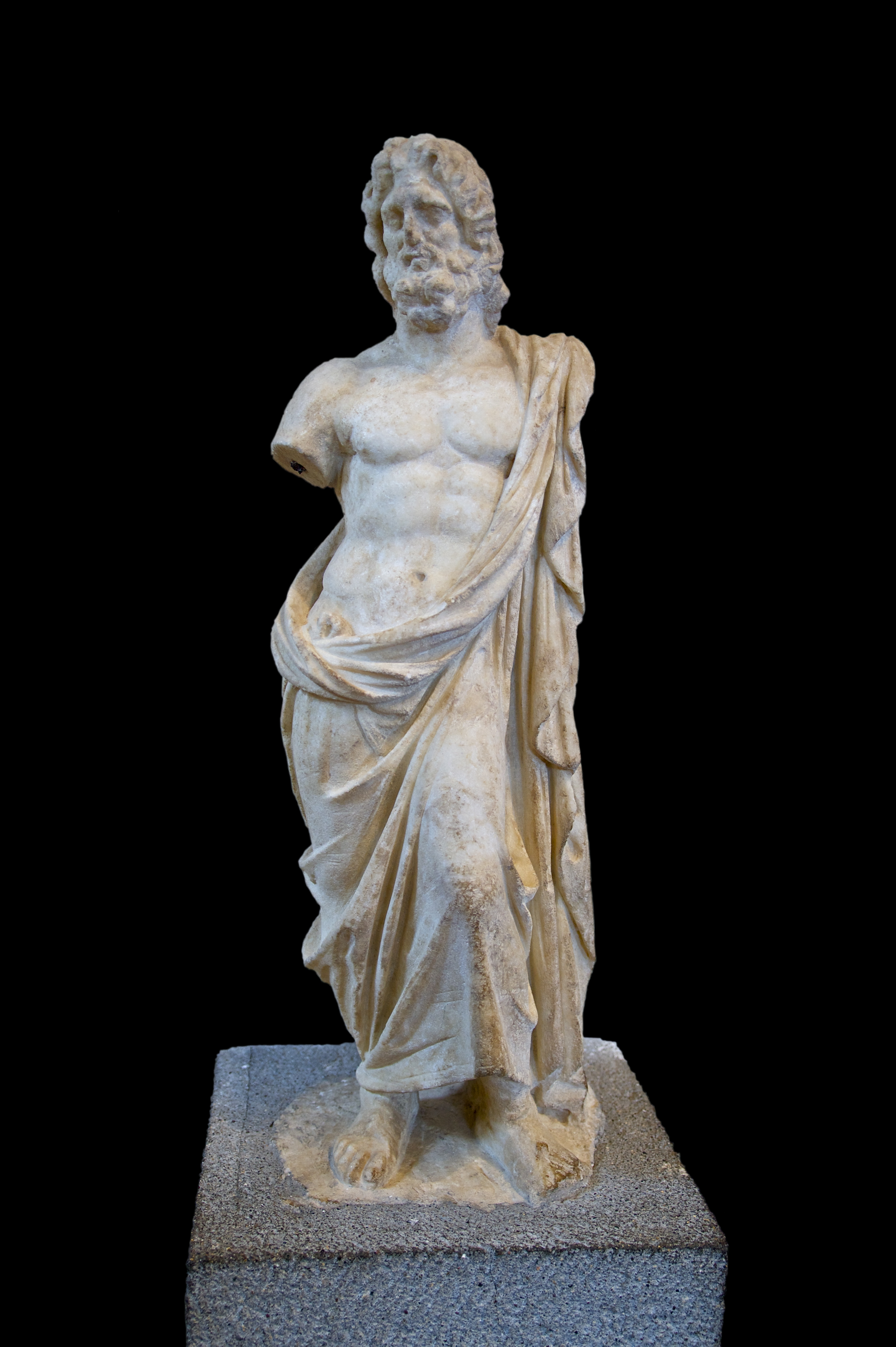 A statue of Zeus, found at Kameiros, late hellenistic period.